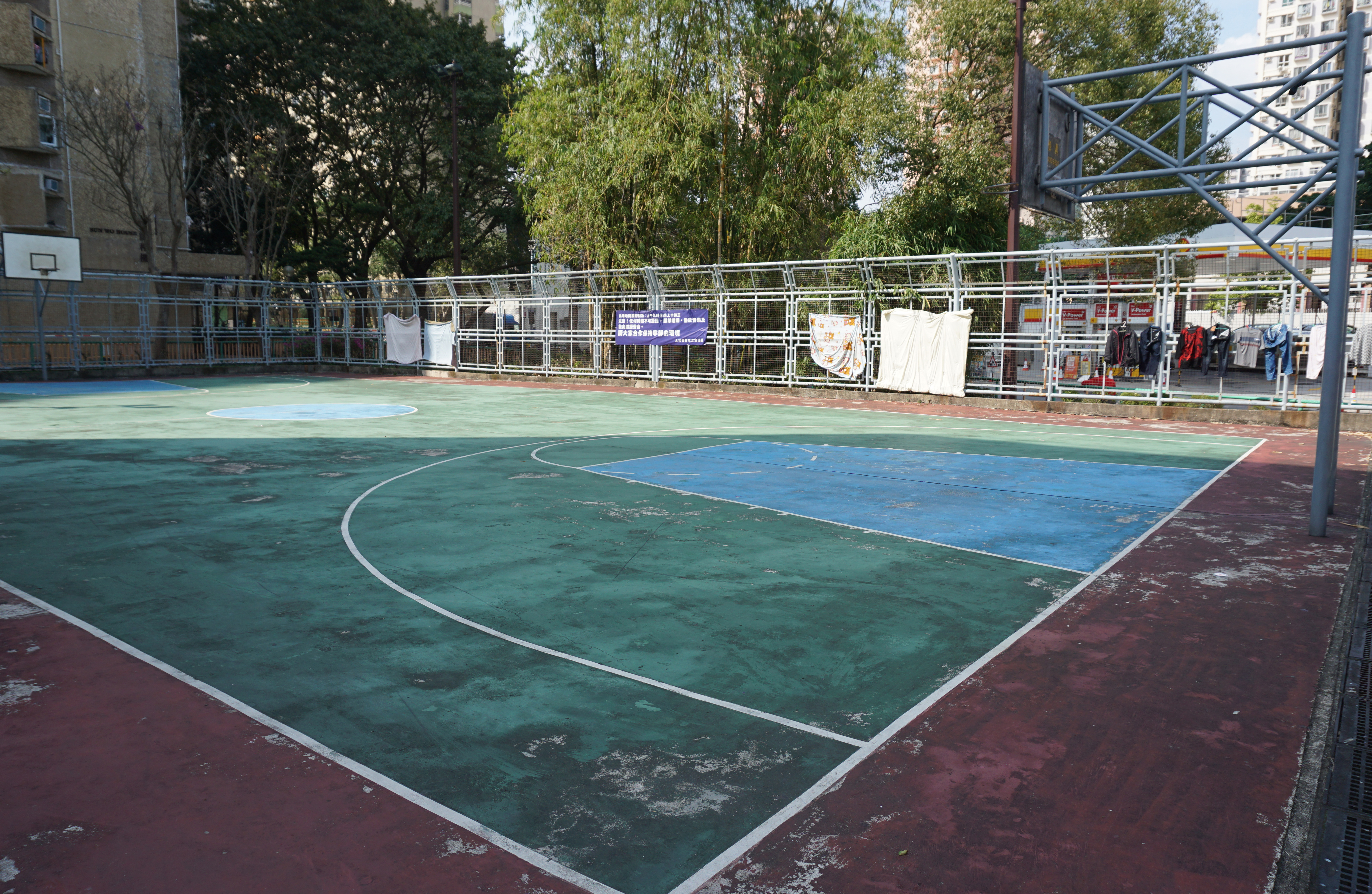 Tai Wo Estate in Tai Po, Hong Kong.